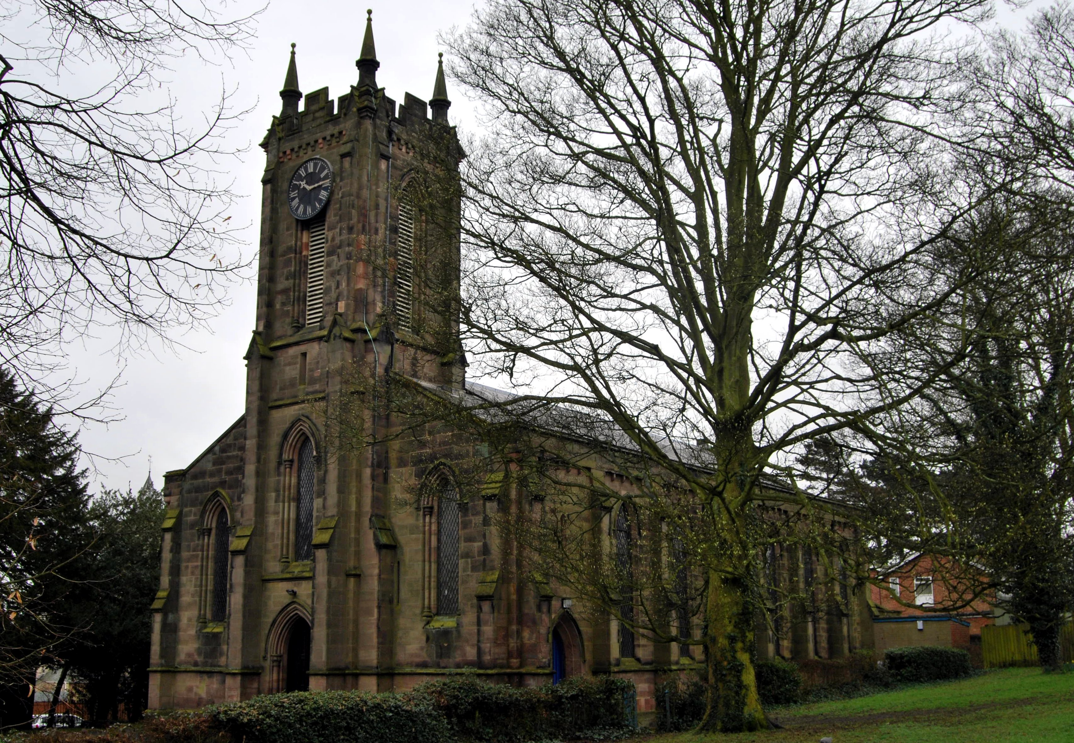 Holy Trinity parish church, Ashby-de-la-Zouch, Leicestershire, seen from the northwest